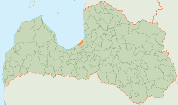 Map of Carnikava